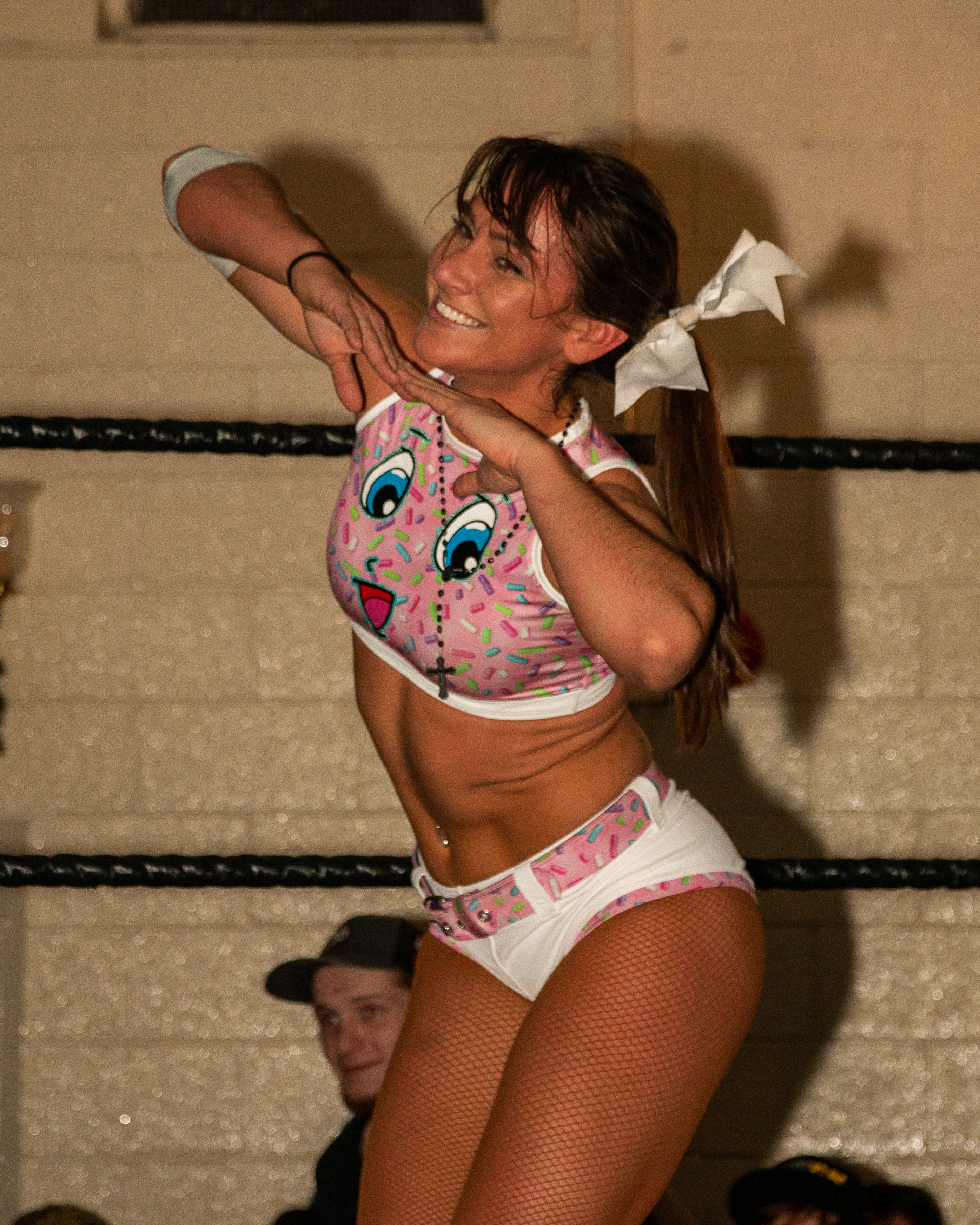 Independent wrestler Kylie Rae posing mid-match at Alpha-1's Kross the Line show in Hamilton, ON